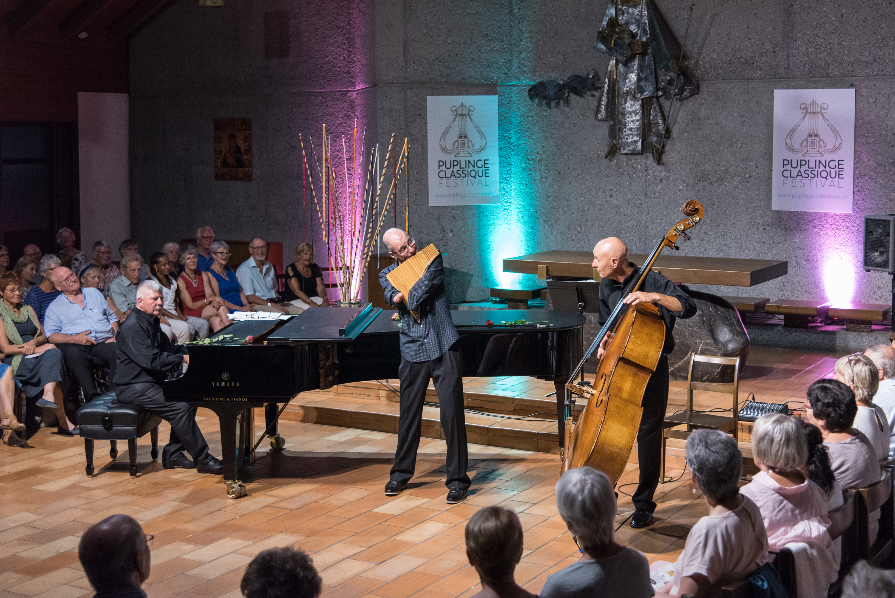 Michel Tirabosco Trio at Puplinge Classique Festival, 2018-07-17